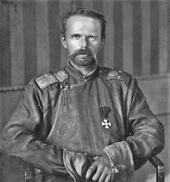 Baron Freiherr Roman Nikolai Maximilian von Ungern-Sternberg photographed in Chita, Siberia, around 1920